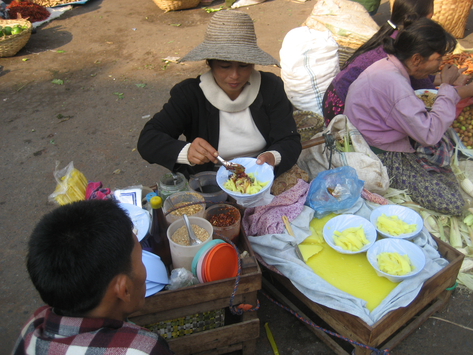 A street vendor preparing Shan tofu salad in Mandalay, Myanmar